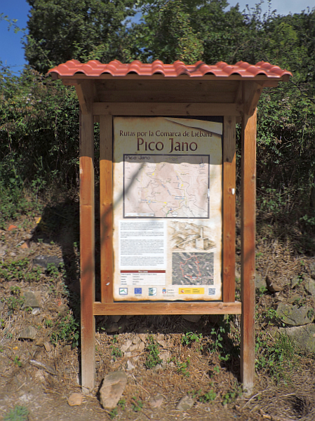 Dobarganes (Cantabria): starting point of Pico Jano footpath